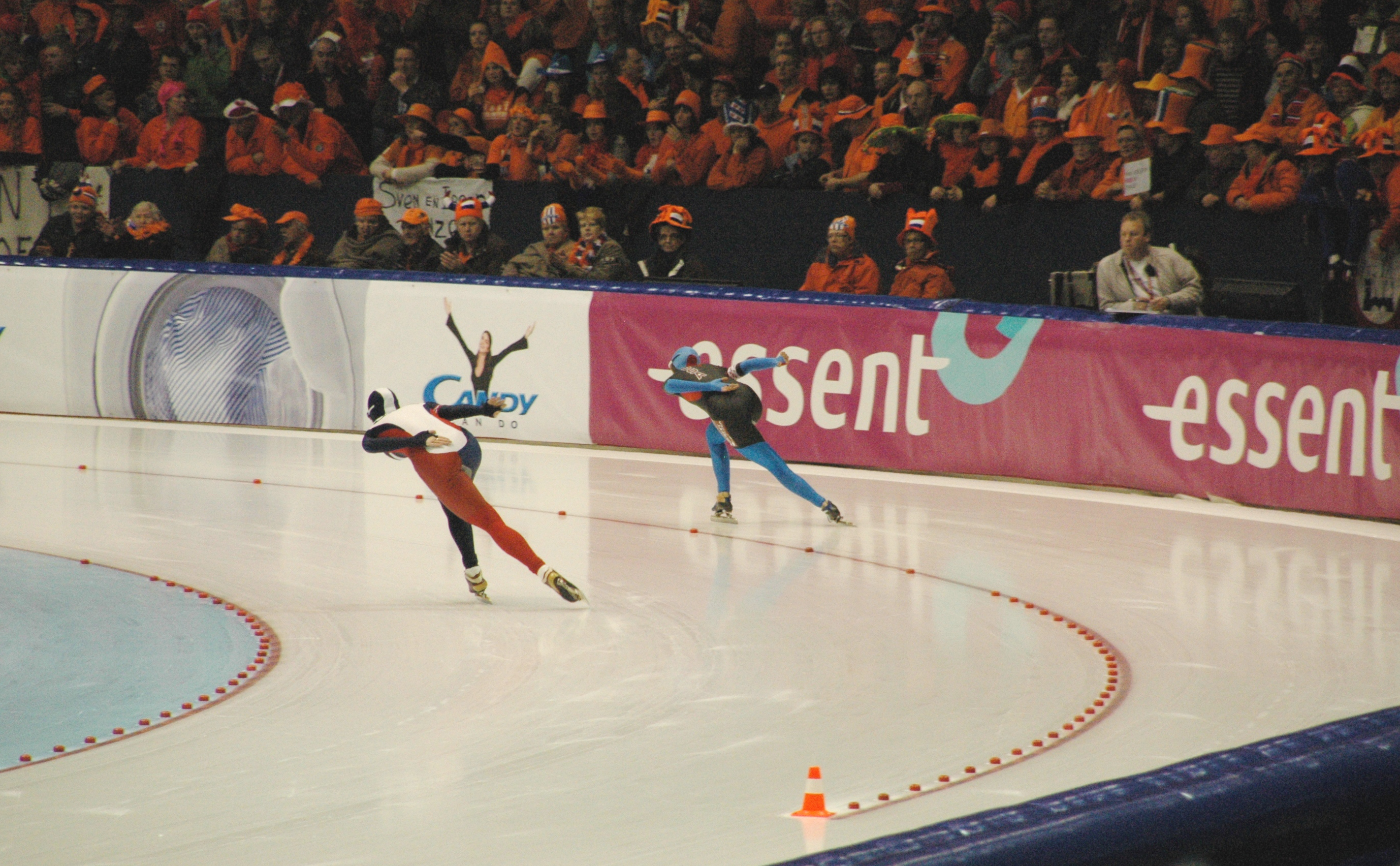 Karolína Erbanová (inside lane) and Anna Ringsred (outside lane) skate the 3000 meters at the 2010 World Allround Championships in Heerenveen, Netherlands